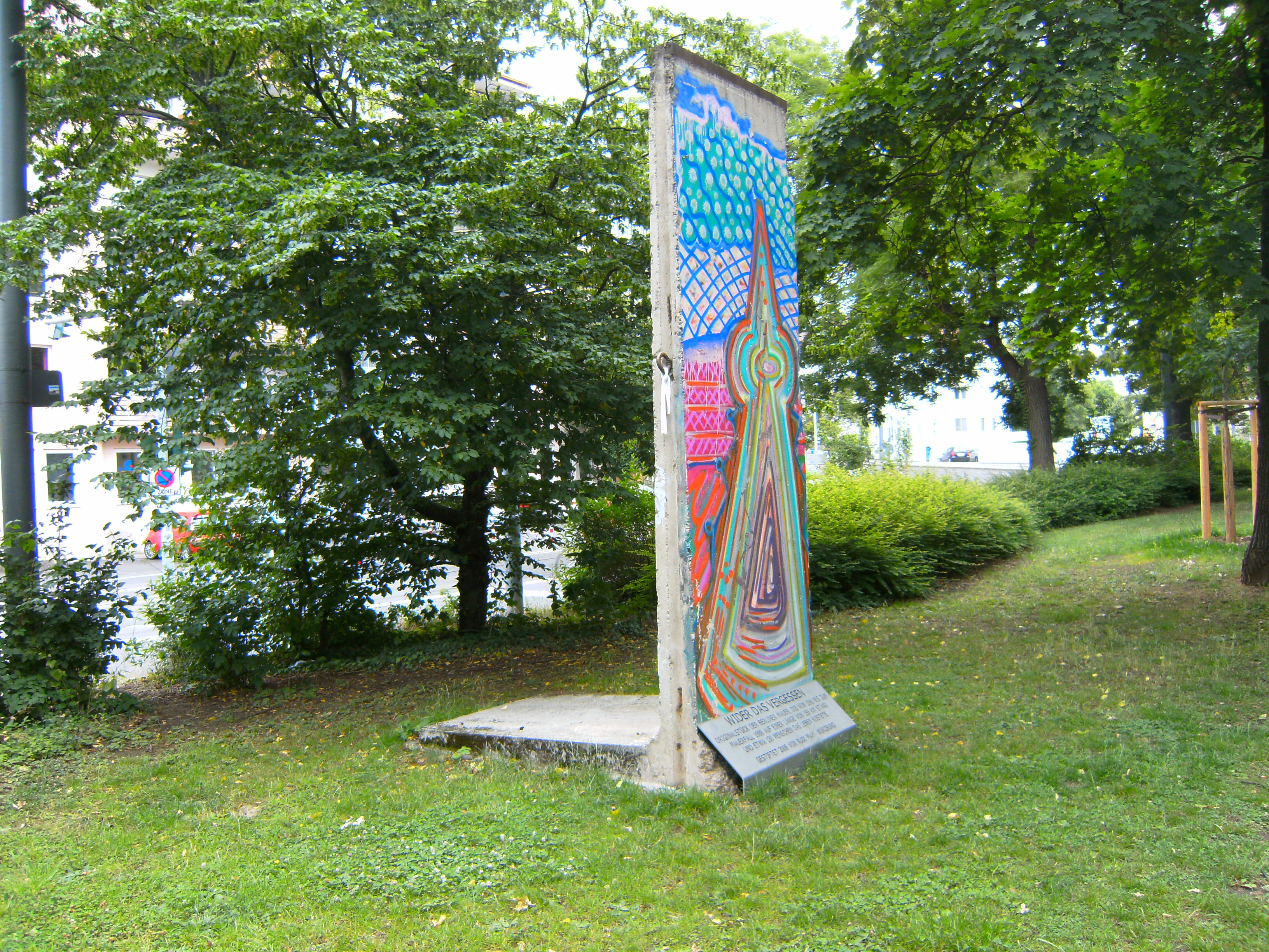 Würzburg, Germany: Berliner Platz (square). Berlin wall segment as memorial in the surrounding park.